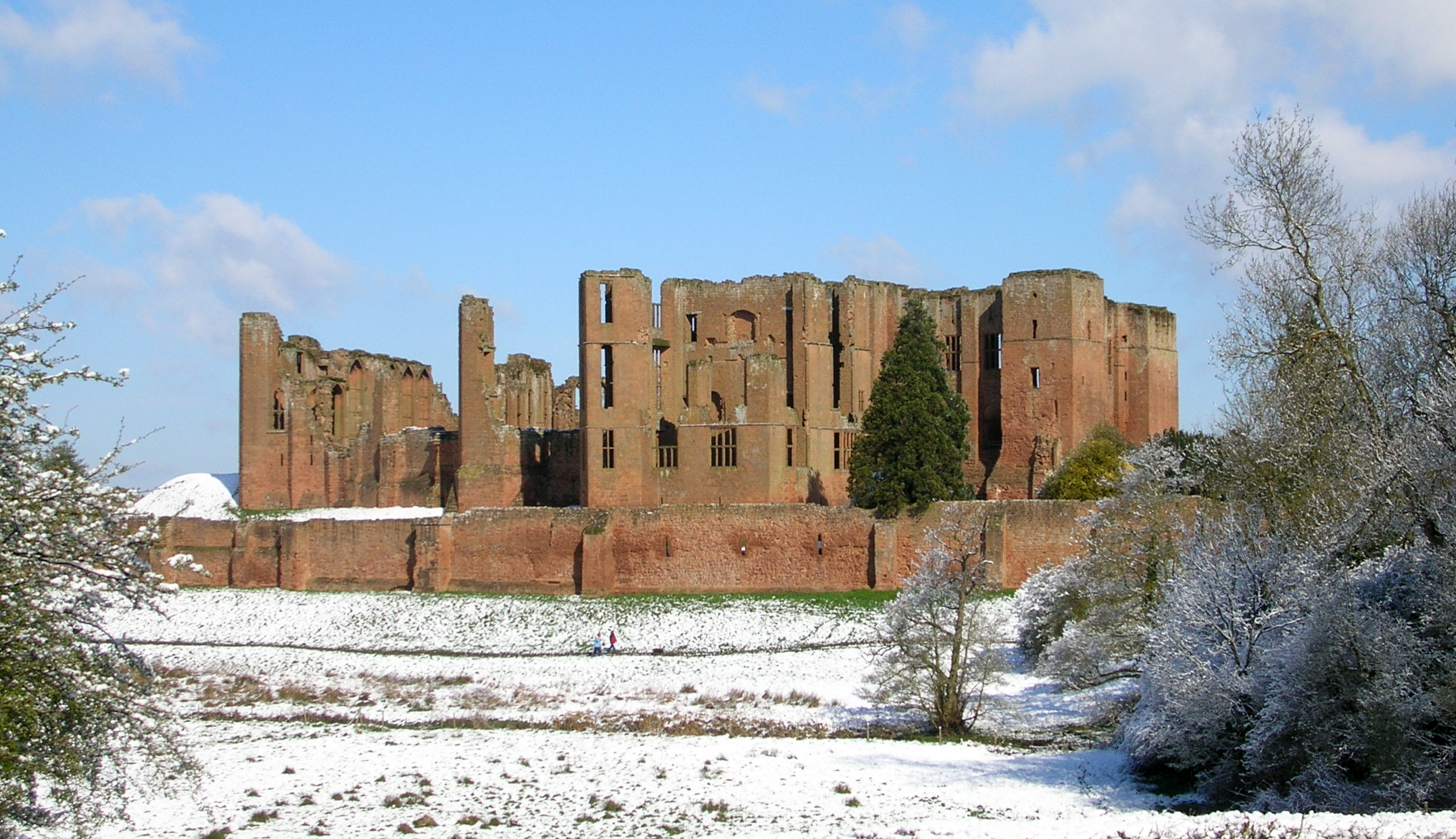 Kenilworth Castle, Kenilworth, Warwickshire, England.